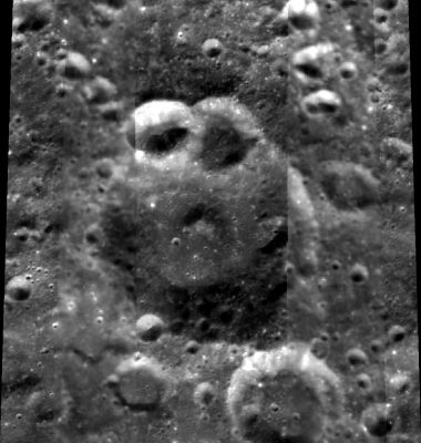 Kulik lunar crater - Clementine image